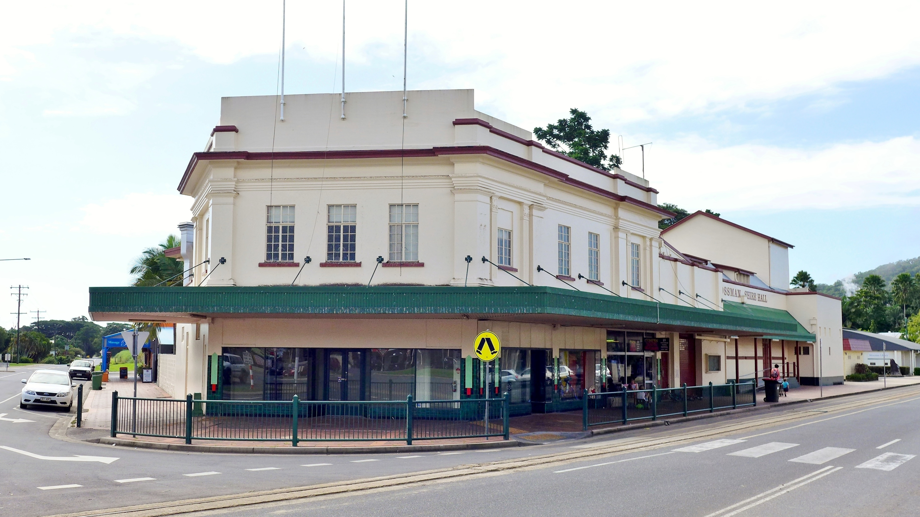 The Mossman Shire Hall, 8-14 Mill Street, Mossman, Far North Queensland, Australia.